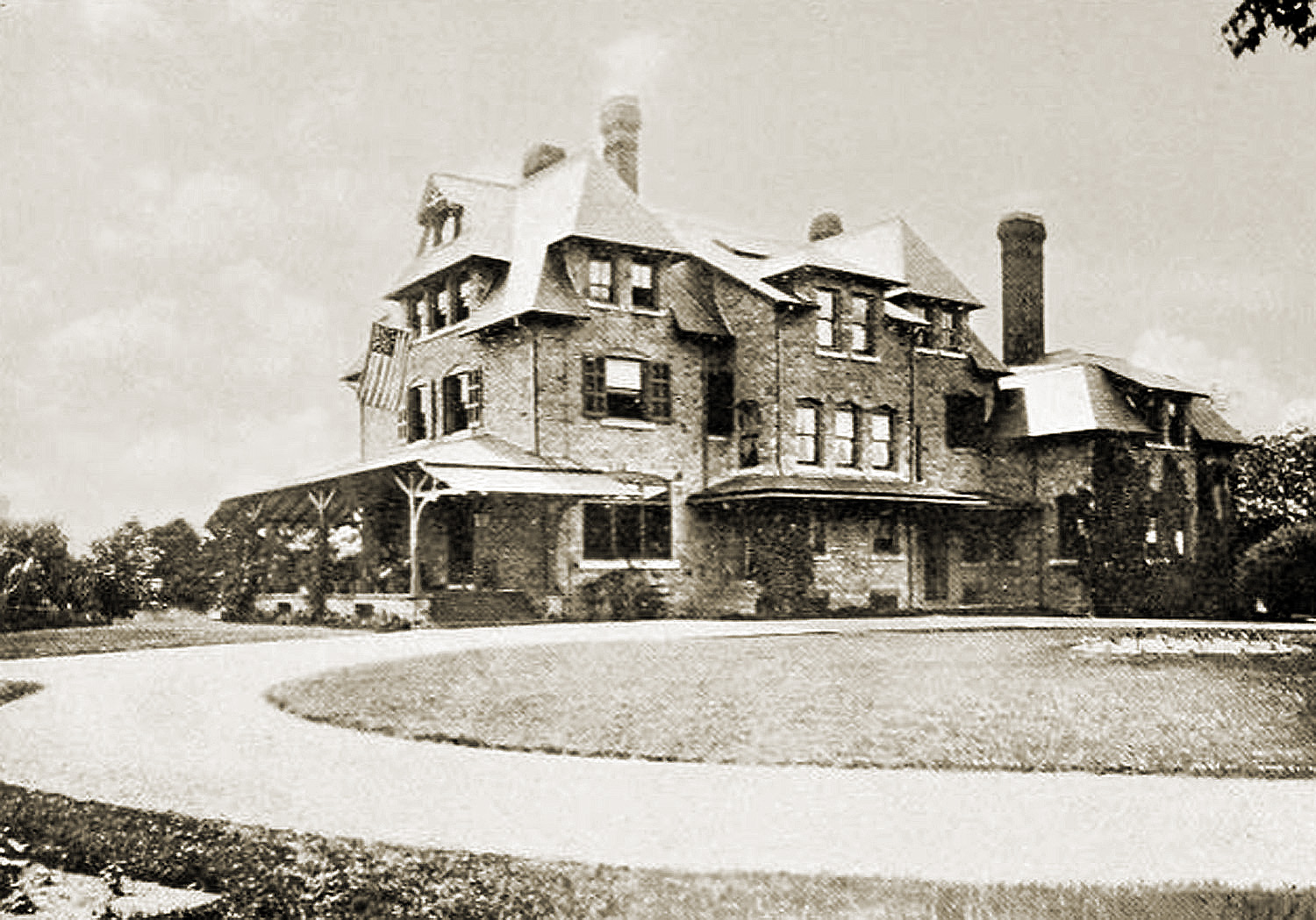 "Dundale" - Israel Morris Estate in Villanova, Pennsylvania, built c. 1886-90, Addison Hutton, architect. Owned by Frederick Wistar Morris in 1898. Historic American Buildings Survey listing:[1]